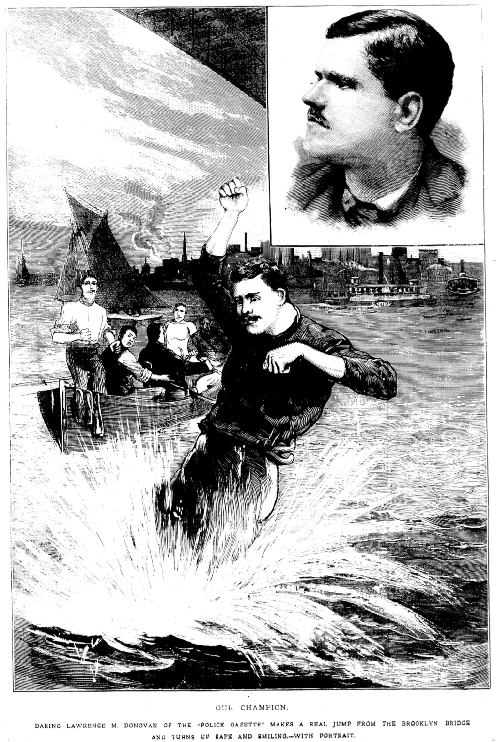 Illustration of Larry Donovan jumping from the Brooklyn Bridge, published in the National Police Gazette.